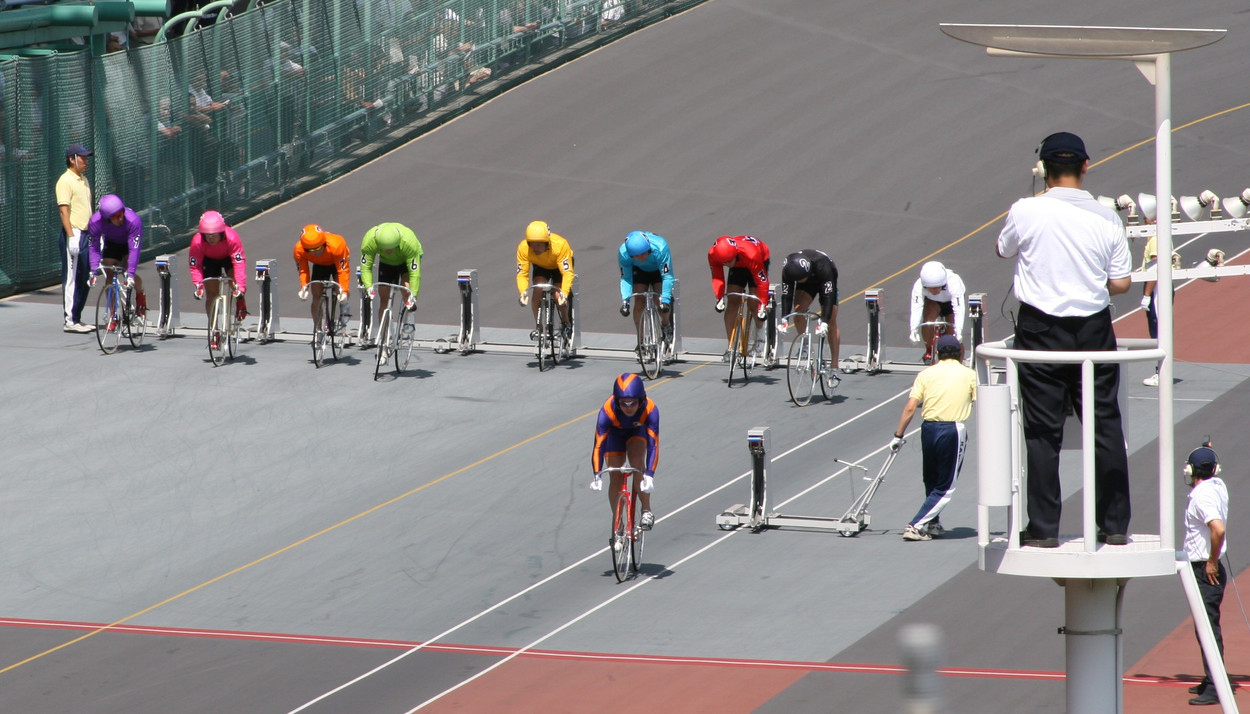 Race start at Tachikawa Keirin in Greater Tokyo